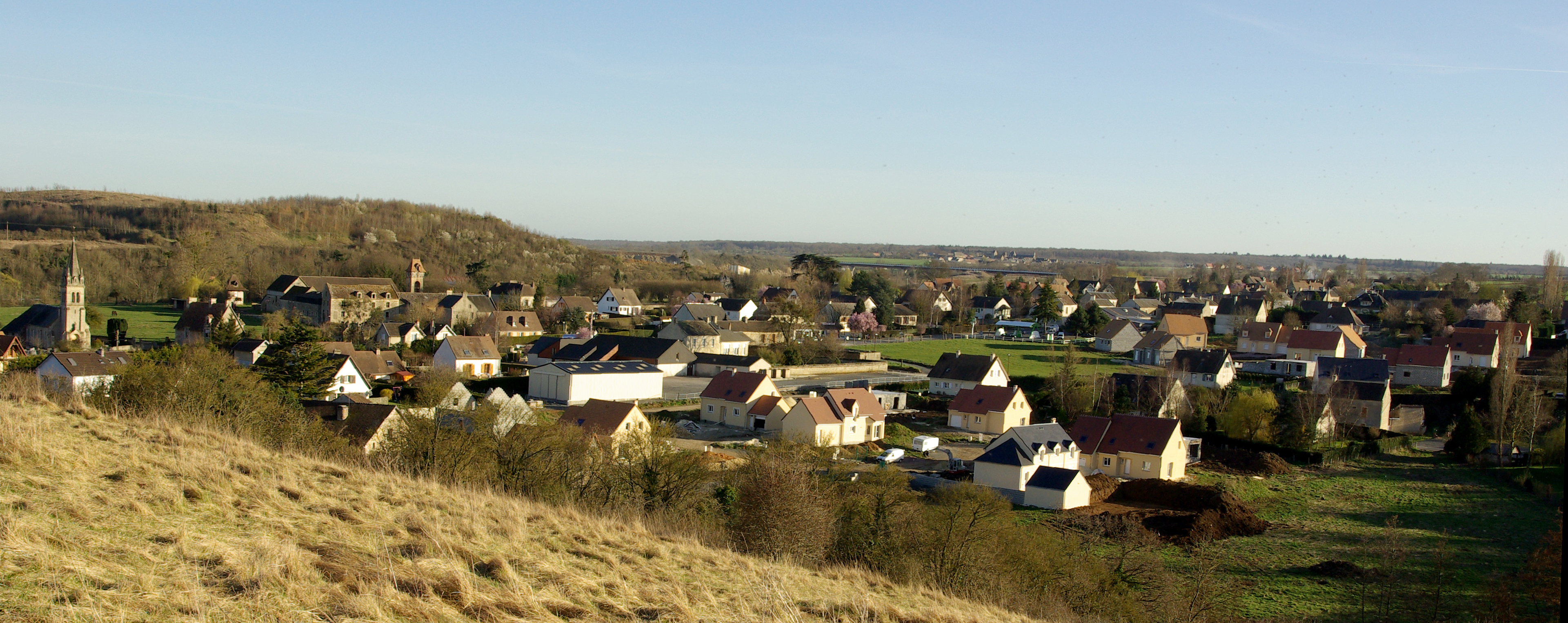 A view of Laize-la-Ville